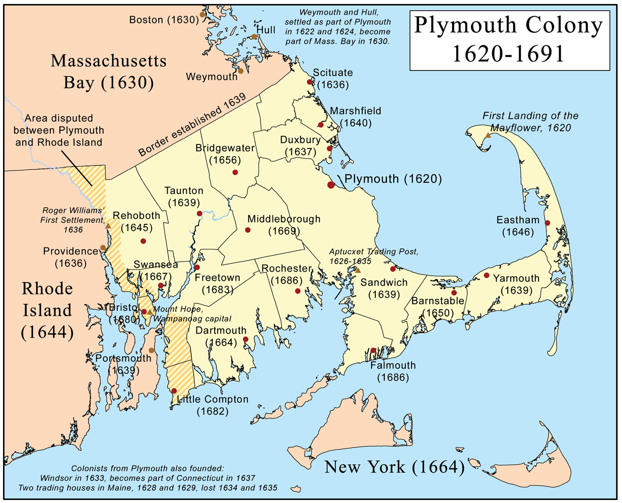 This is a map of Plymouth Colony that I made.